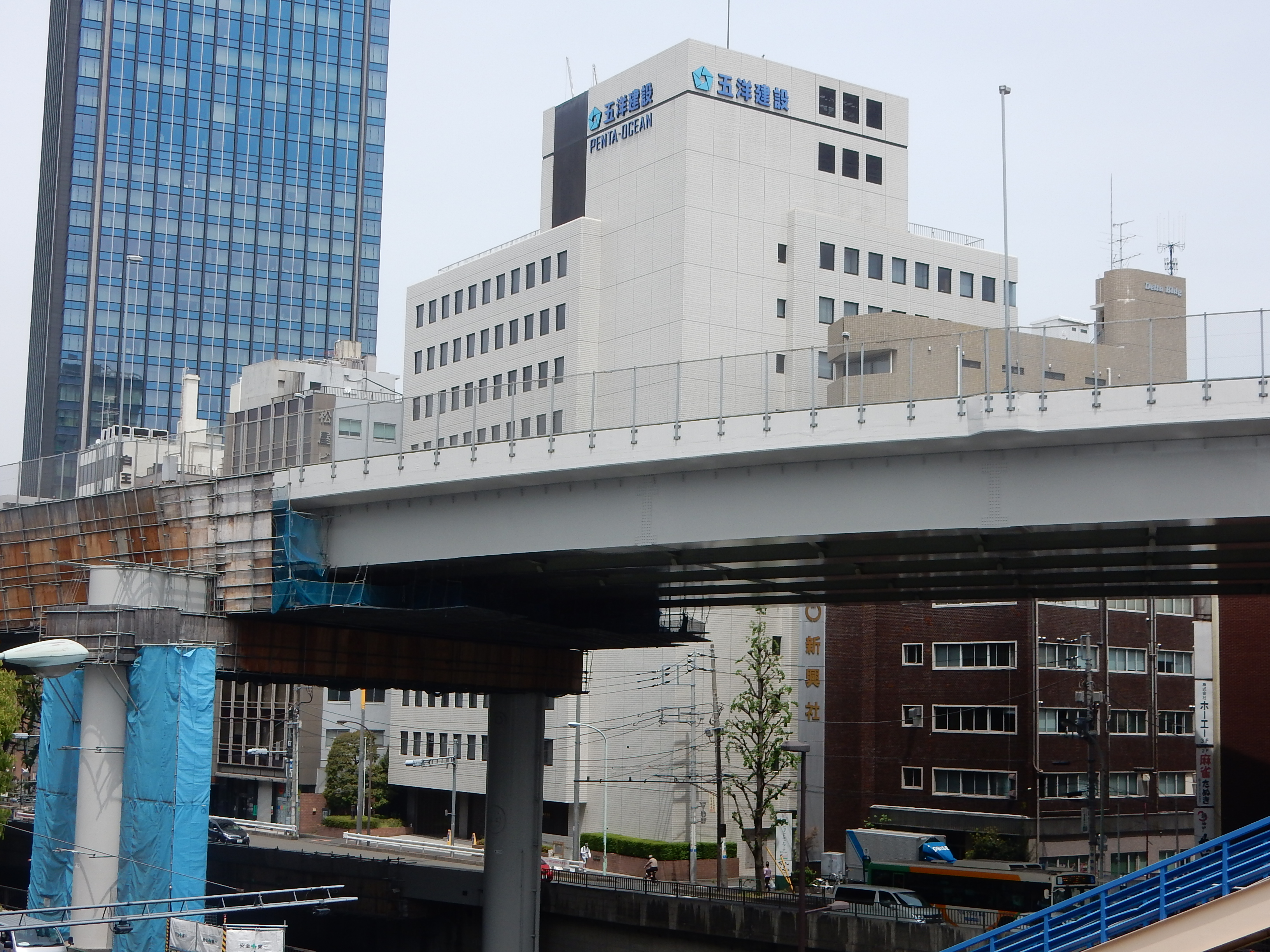 Penta-Ocean Construction (五洋建設 Goyō Kensetsu) Headquarters, located at 2-8 Koraku 2-chome, Bunkyo, Tokyo, Japan